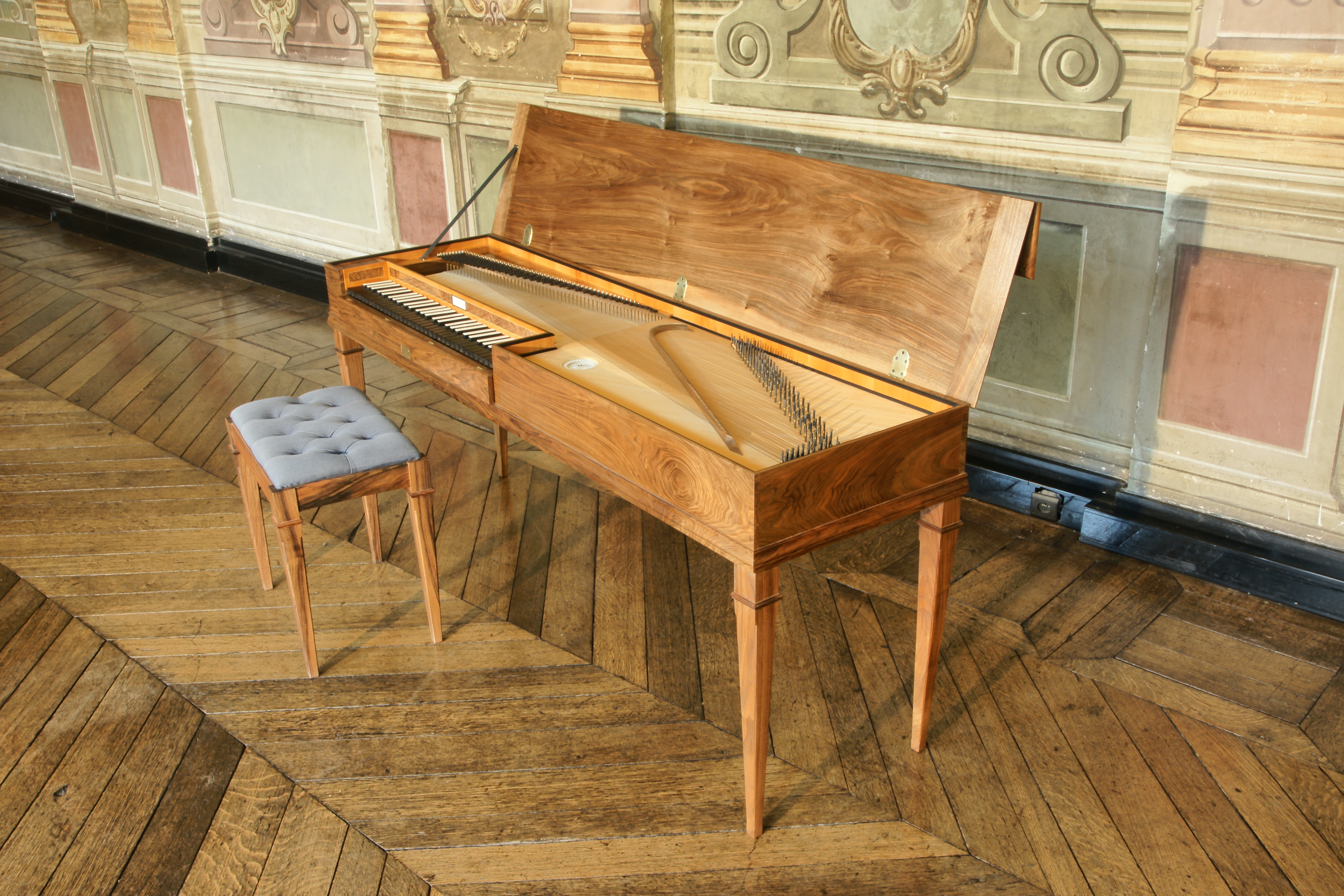 Clavichord built in Saxon style after 1782 by Joris Potvlieghe (Belgium) in 2010